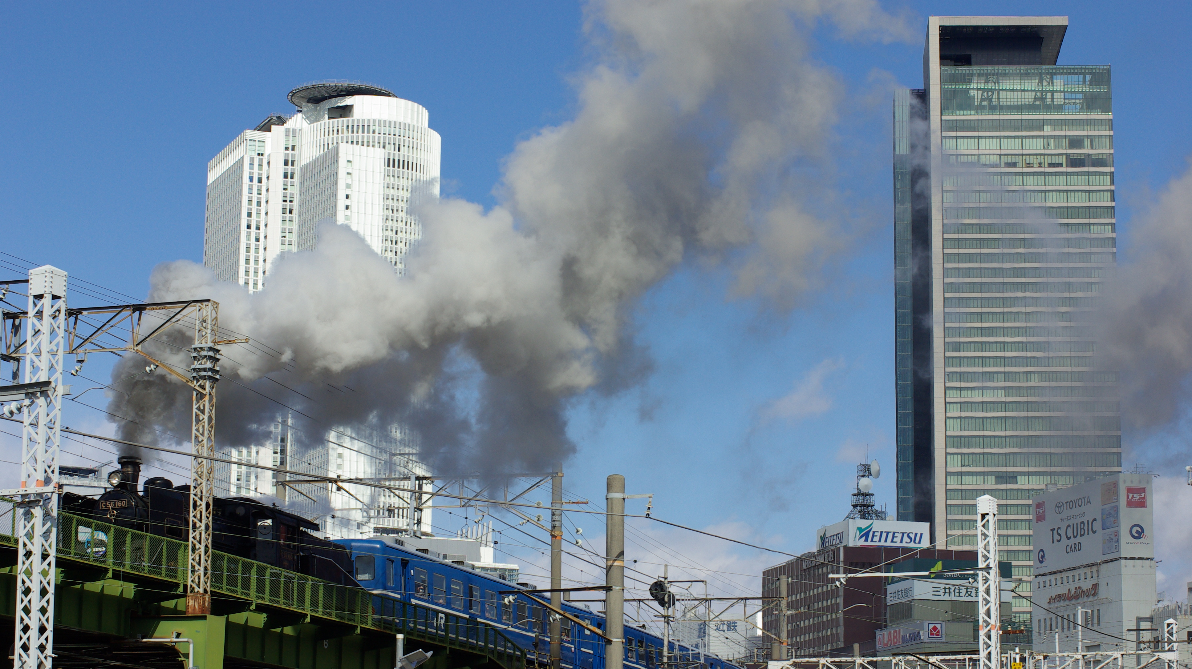 Buildings of Meieki and Type C56 steam locomotive running through the Aonami line.